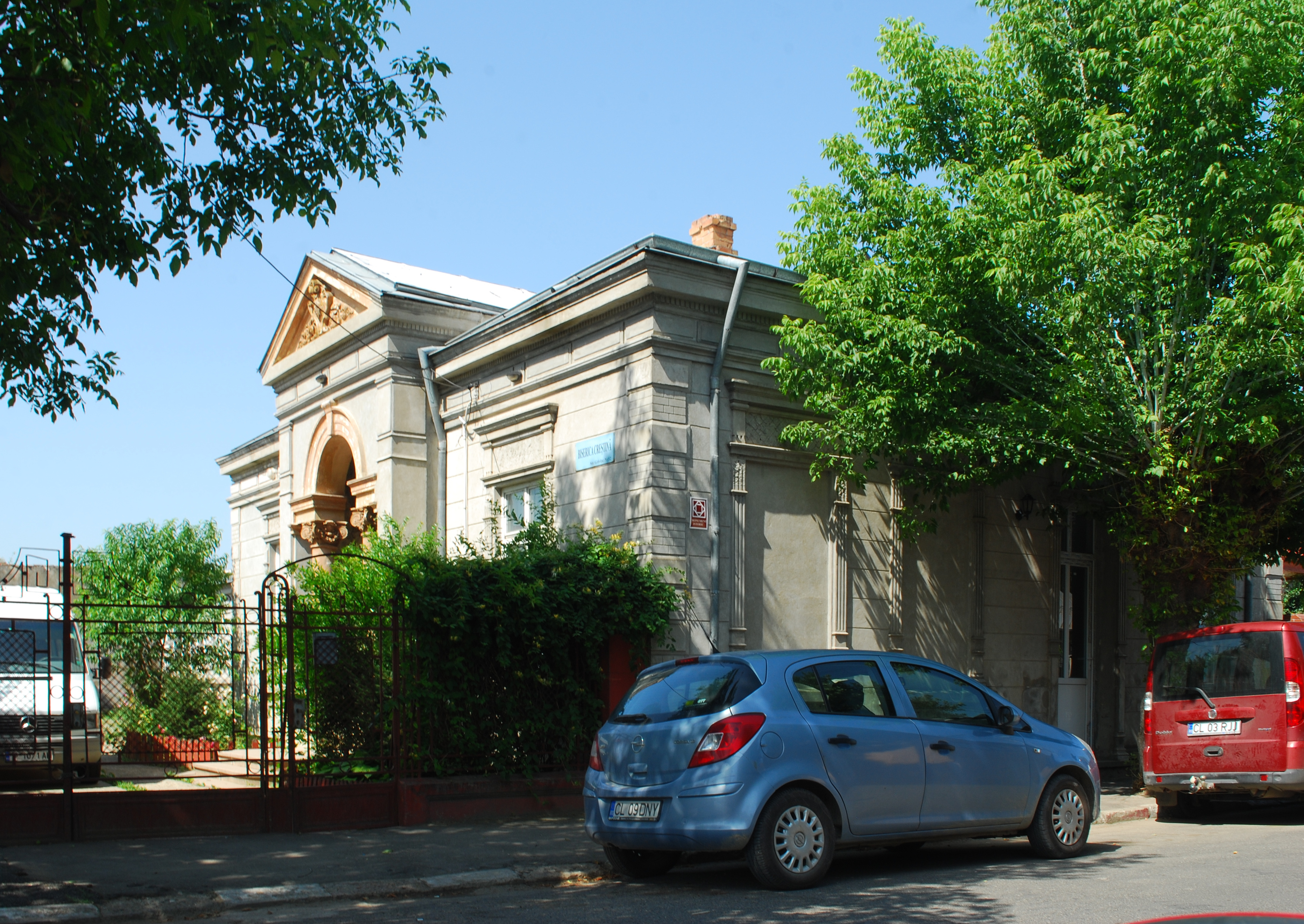 Evangelical church in Călărași, Romania